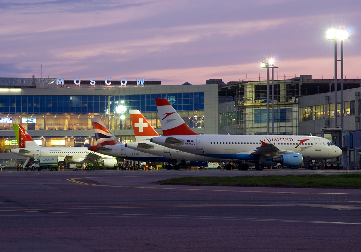 "Austrian","Swiss","British Airways" and first flight "Tap" in DME.